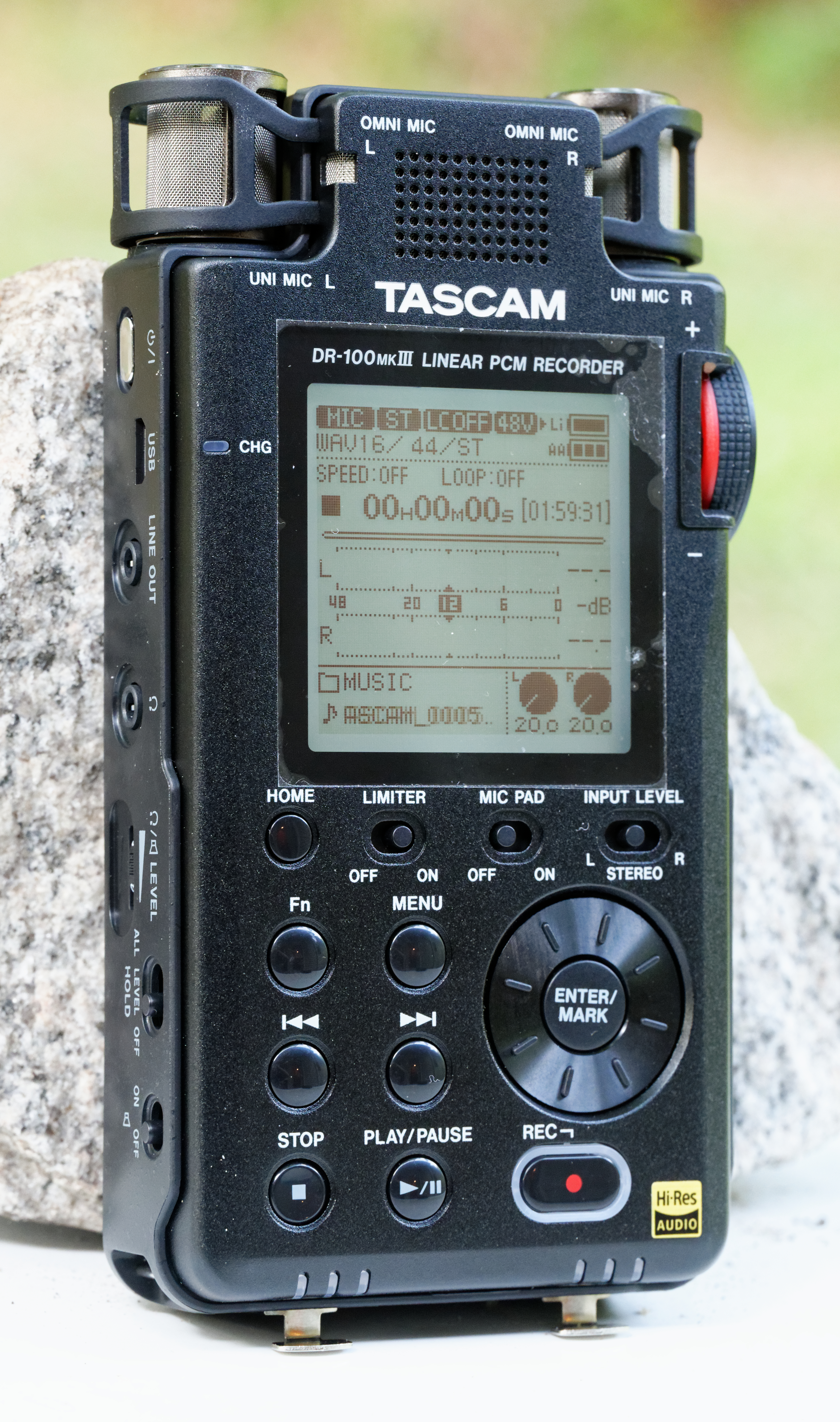 TASCAM DR-100mkIII digital recorder